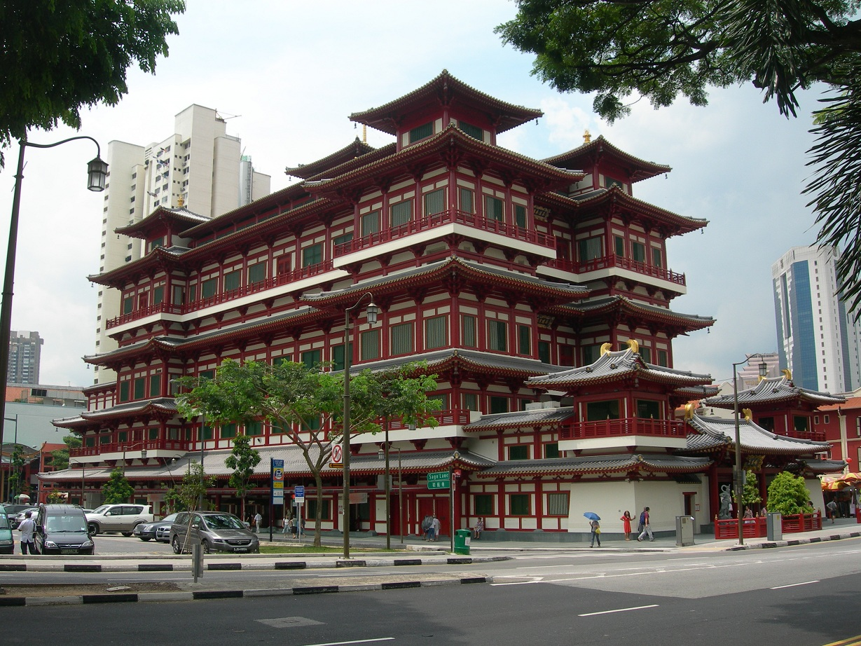 Singapore's Buddha Tooth Relic Temple and Museum from South Bridge Road. Opened 2007. Taken by Ricky W.